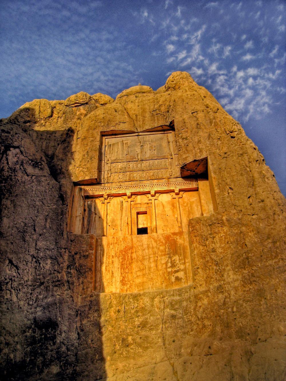 Tomb of Xerxes I in Naghsh-e Rostam, Iran.